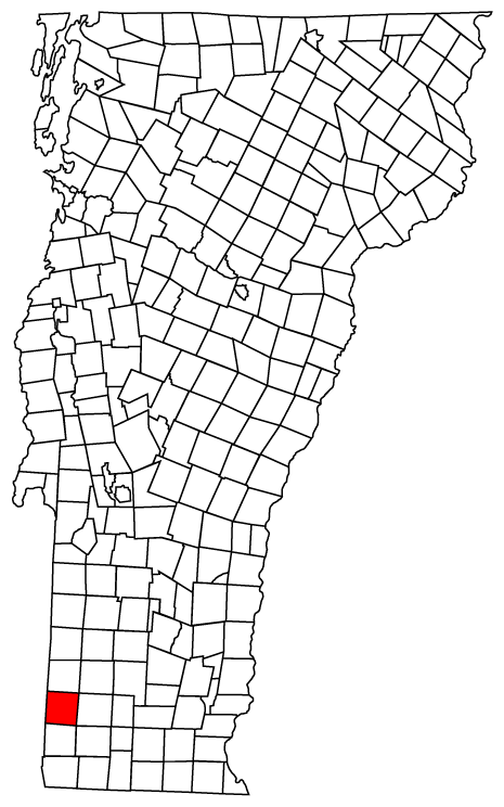 Description: Map of Vermont towns with Shaftsbury highlighted Source: Map created by Jared C. Benedict on 26 March 2004. Copyright: © Jared C. Benedict.